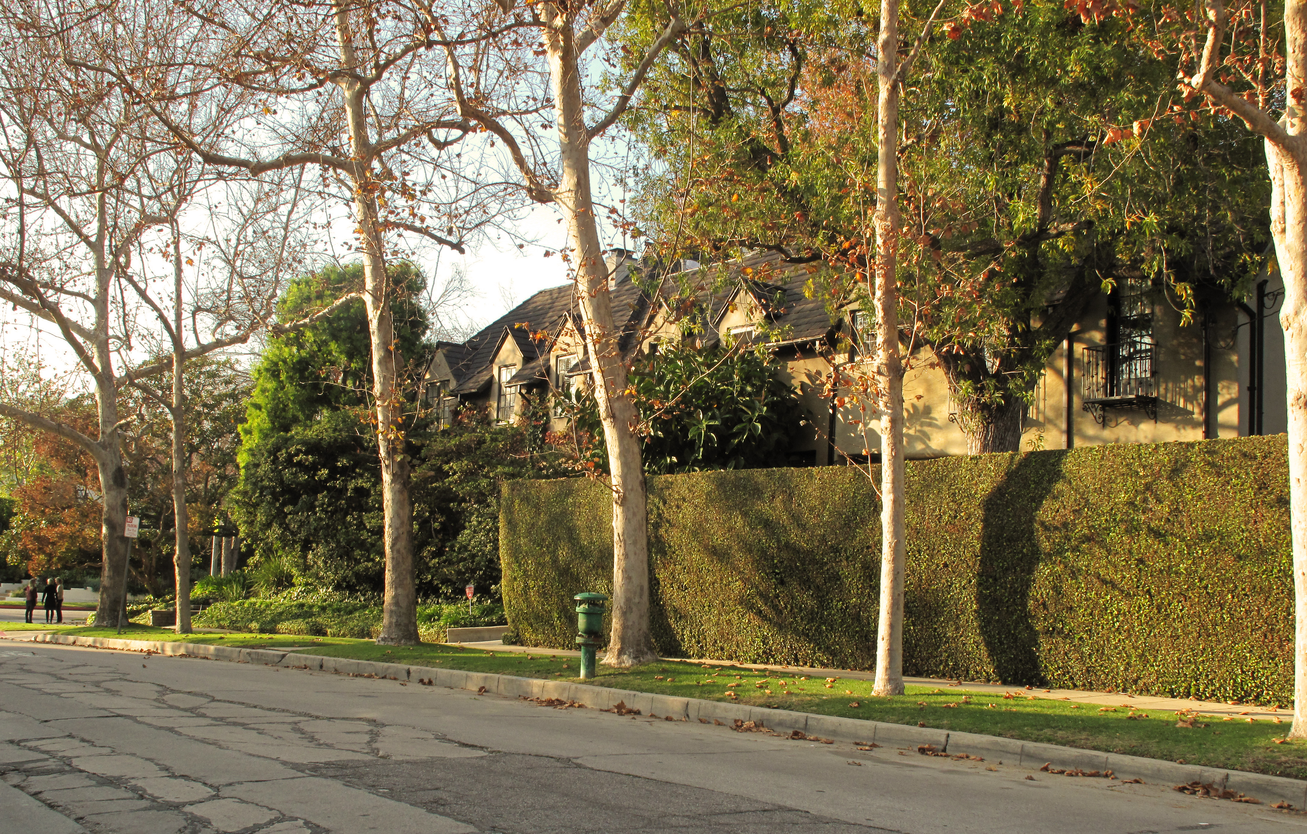 Fourth Street in Hancock Park, Los Angeles, looking west toward Rossmore Ave.